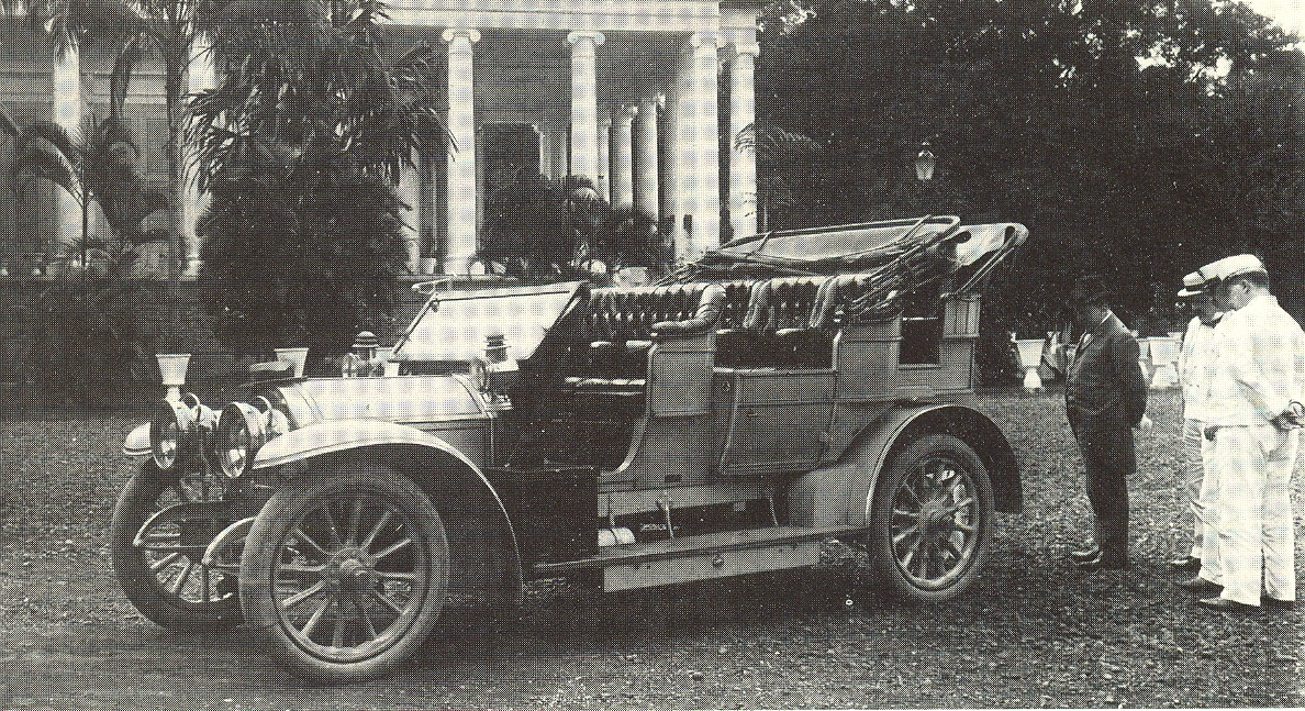 Fiat 50/60 hp (1907).